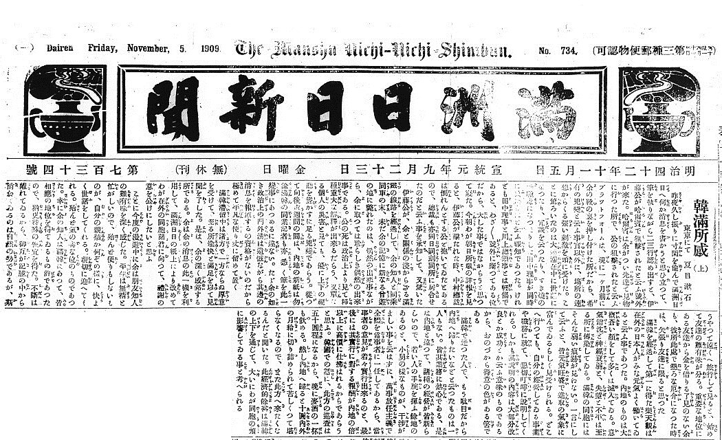 Manshu Nichi-Nichi Shimbun newspaper clipping (5 November 1909 issue)